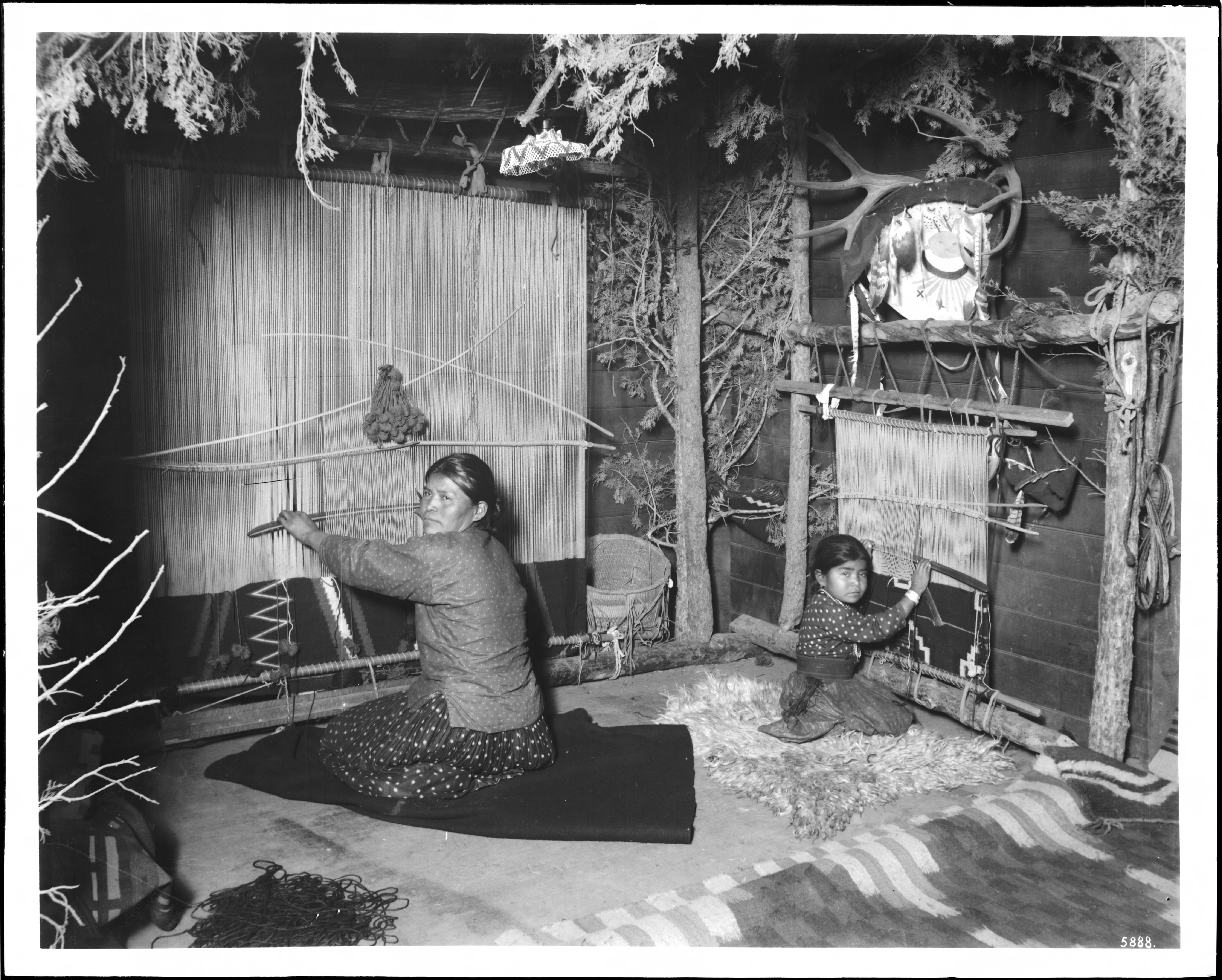 Portrait of an older Navajo Indian woman and a young Navajo Indian girl weaving blankets, ca.1908 Photographic portrait of an older Navajo Indian woman and a young Navajo Indian girl weaving blankets, ca.1908. The girl is visible at right wearing a polka-dot dress and several bead necklaces. She sits on a fur rug in front of a loom, which she uses a wooden stick to weave through. Likewise, the older lady has a larger version of the loom at left where she weaves a much larger blanket. Ropes attached to pine tree branches hold up the looms. In the corner of the room is a basket. Call number: CHS-5888 Photographer: Pierce, C.C. (Charles C.), 1861-1946; James, G.W. Filename: CHS-5888 Coverage date: circa 1908 Part of collection: California Historical Society Collection, 1860-1960 Type: images Part of subcollection: Title Insurance and Trust, and C.C. Pierce Photography Collection, 1860-1960 Repository name: USC Libraries Special Collections Format: glass plate negatives Microfiche number: 1-163- Archival file: chs_Volume99/CHS-5888.tiff Repository address: Doheny Memorial Library, Los Angeles, CA 90089-0189 Geographic subject (country): USA Format (aacr2): 2 photographs : glass photonegative, photoprint, b&w ; 21 x 26 cm. Rights: Digitally reproduced by the USC Digital Library; From the California Historical Society Collection at the University of Southern California Subject (adlf): tribal areas Project: USC Accession number: 5888 Repository Contributing entity: California Historical Society Date created: circa 1908 Publisher (of the digital version): University of Southern California. Libraries Format (aat): photographic prints; photographs Legacy record ID: chs-m17509; USC-1-1-1-13946 Access conditions: Send requests to address or e-mail given. Phone (213) 821-2366; fax (213) 740-2343. Subject (file heading): Indians -- Navajo Subject (lcsh): Indians of North America; Navajo Indians; Dwellings; Weaving Subject: Navajo Indians